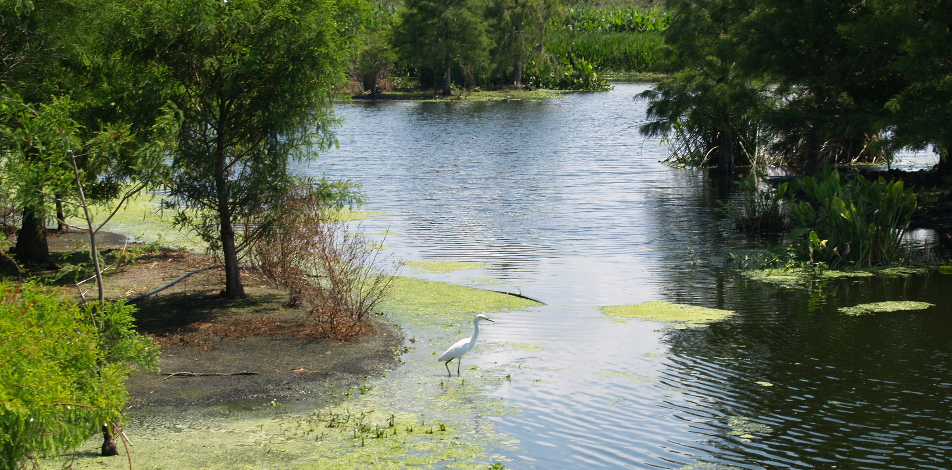 Green Cay Wetlands. Great egret.